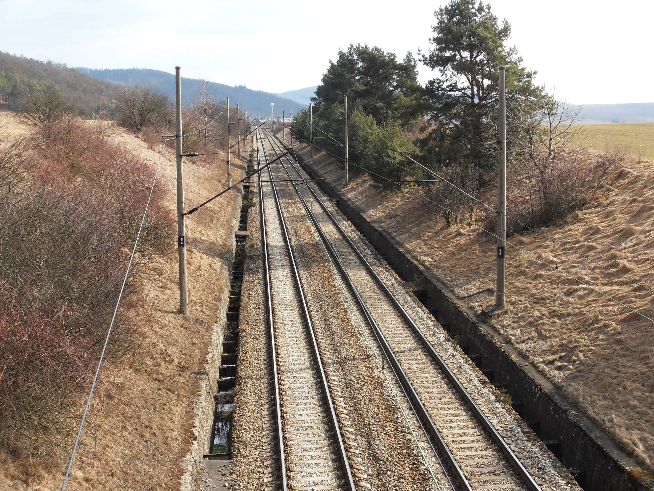 Railway line Brno - Havlíčkův Brod, Moravské Knínice, Brno-Country district, Czech Republic